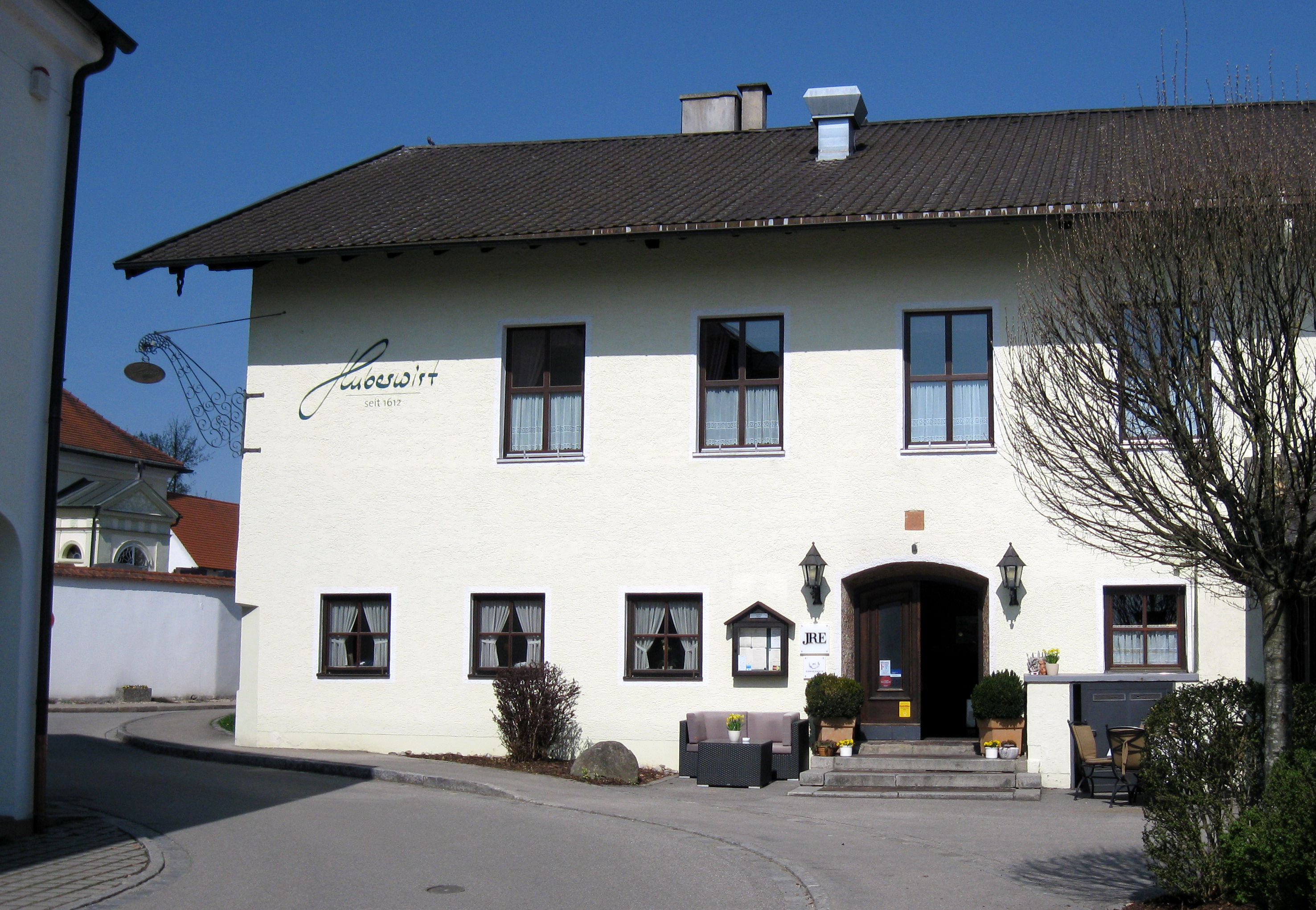 Huberwirt Pleiskirchen (Restaurant)